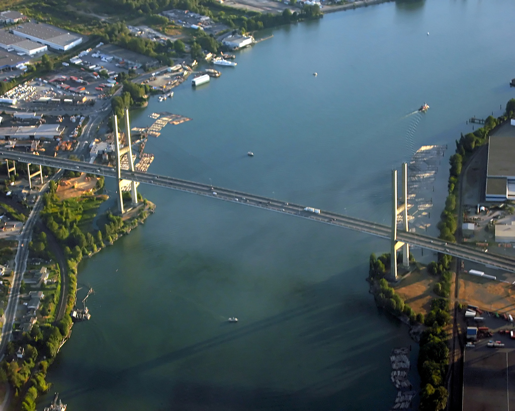 Alex Fraser Bridge in Canada